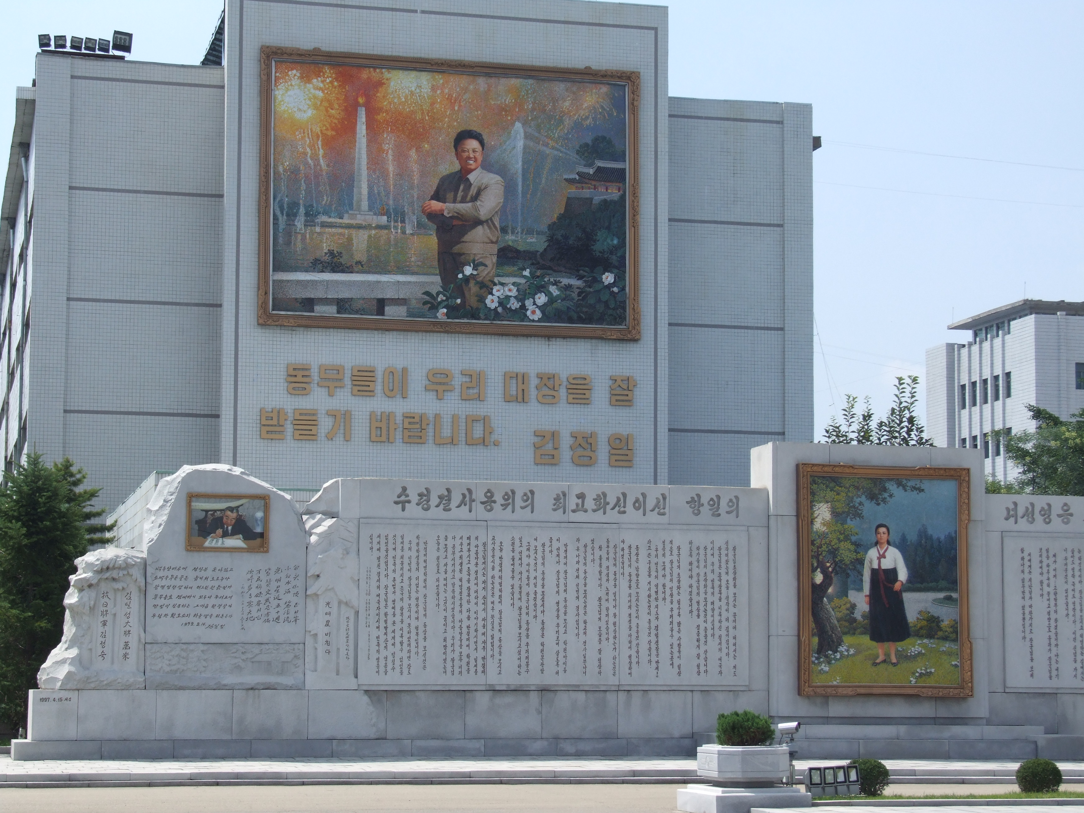 Painting of Kim Jong-il and his mother Kim Jong-suk at Mansudae Art Studio in Pyongyang